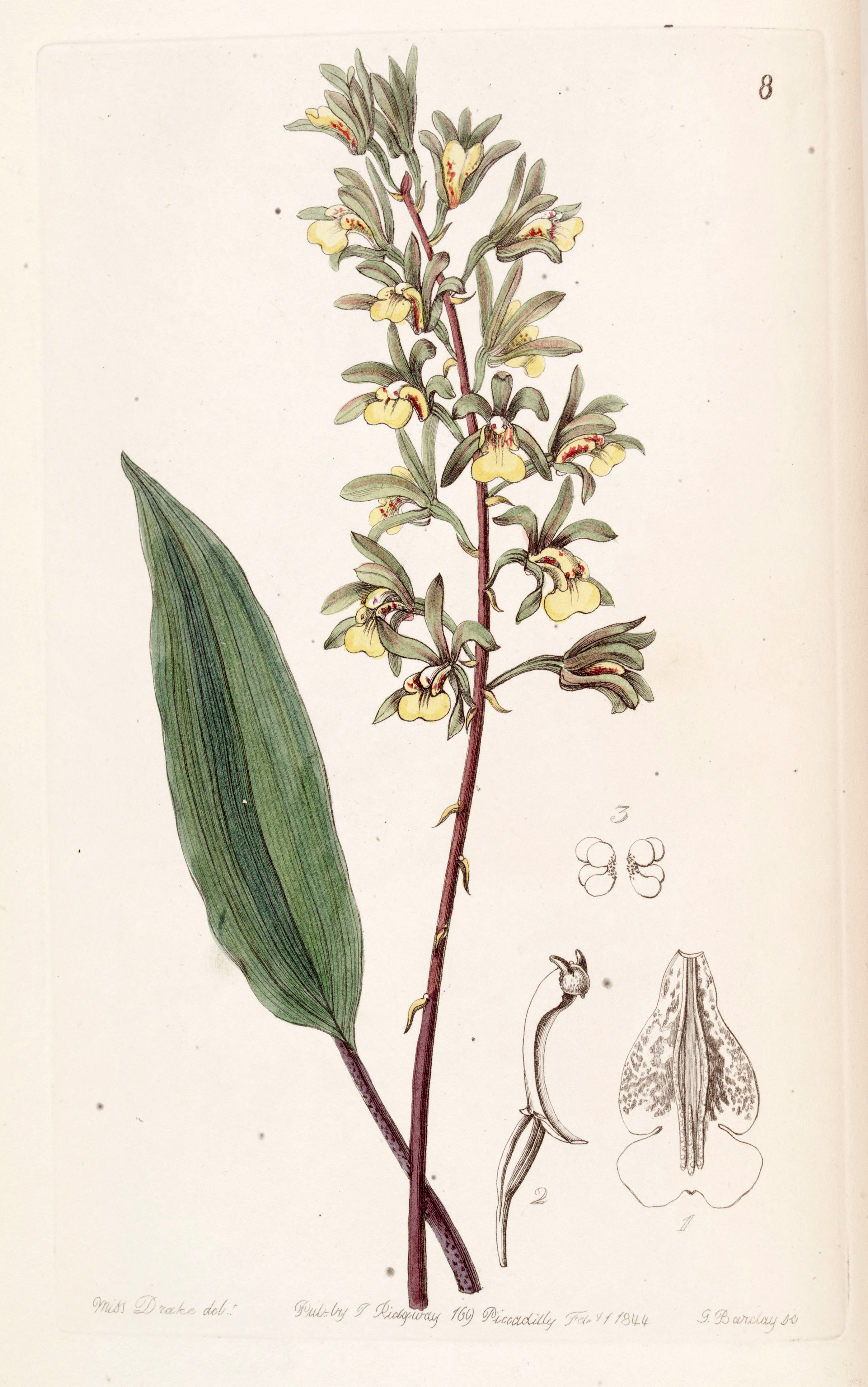 Tainia bicornis (as syn. Ania bicornis)